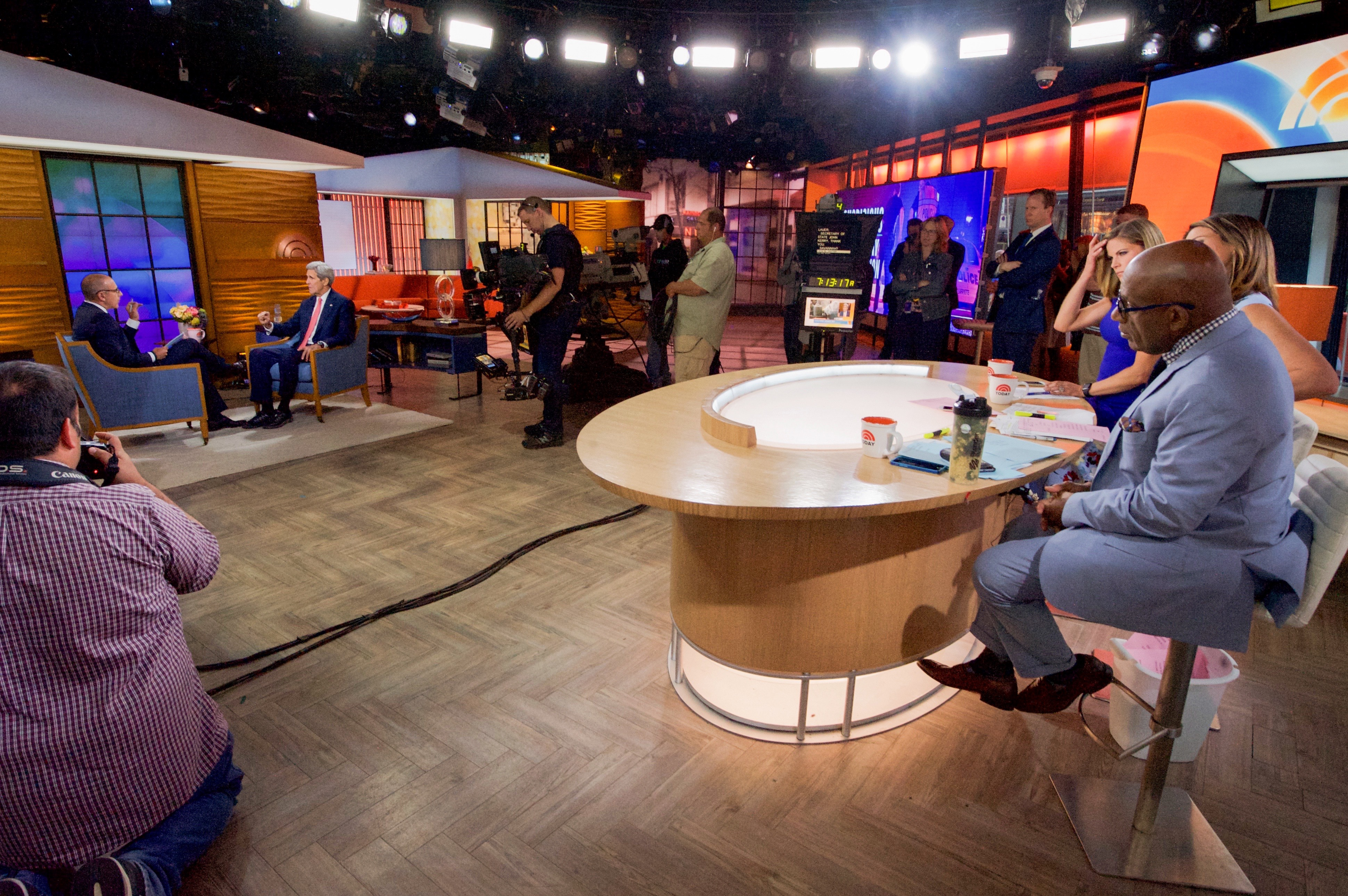 Co-hosts Al Roker, Savannah Guthrie, and Natalie Morales look on as U.S. Secretary of State John Kerry chats with Matt Lauer, co-host of the NBC News "Today" program, on July 24, 2015, in New York, N.Y., before an interview focused on the Iranian nuclear deal. [State Department photo/ Public Domain]